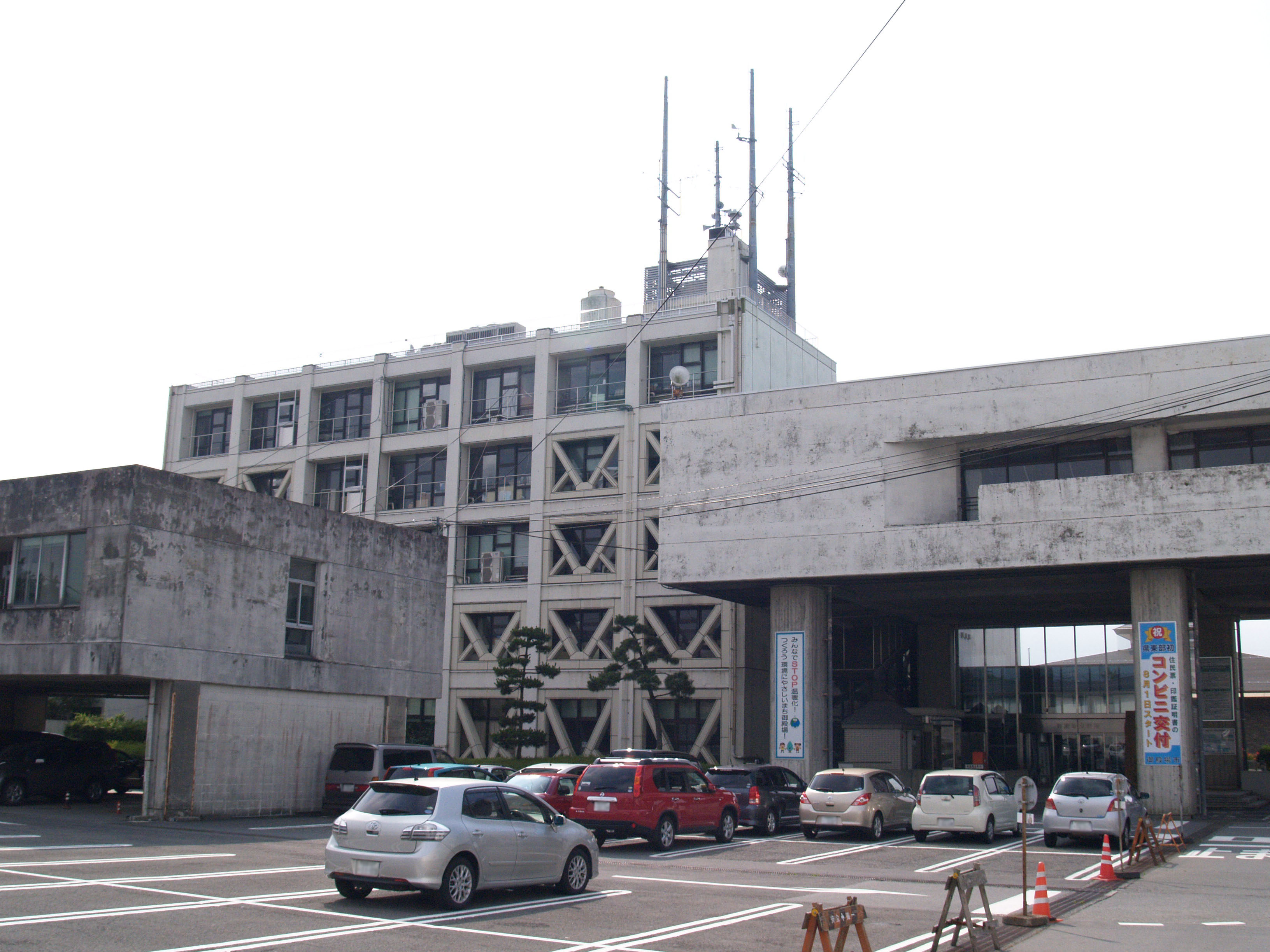 Gotemba city office